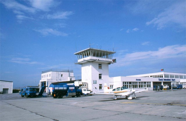 Connaught (Knock) Airport A light aircraft parked at the Control Tower of the airport which was built mainly to serve flights bringing visitors to the nearby shrine in Knock. This is a major pilgrimage site in County Mayo where Catholics believe that in 1879 there was an apparition of the Virgin Mary, St Joseph, St John the Evangelist and Jesus Christ (as the Lamb of God). This large airport was controversially built after Knock's parish priest James Horan persuaded Irish Taoiseach Charles Haughey to release millions of pounds of state aid for its construction. At the time this was condemned by critics in the media. However, the airport now draws not just pilgrims but many other passengers and functions as a useful air-gateway for the entire Connaught region